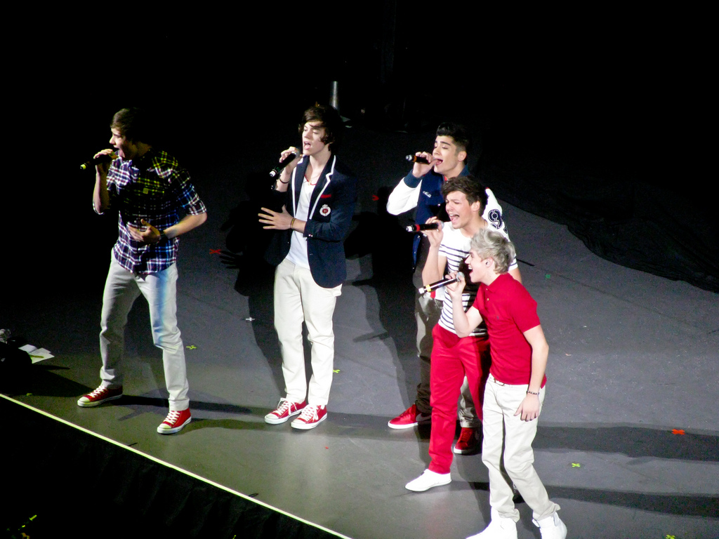 One Direction performing "Moments", Air Canada Centre, Toronto, Ontario